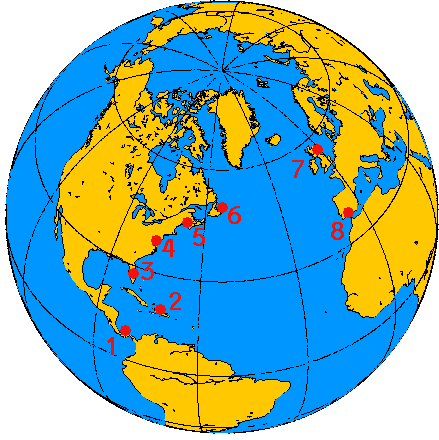 AN/FRD-10 HF/DF Wullenweber antennae sites (Atlantic ring)